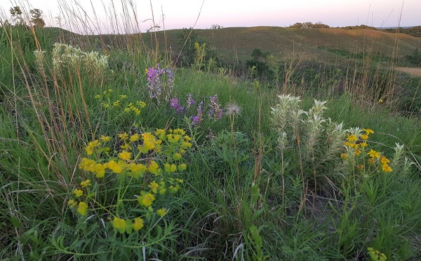 Wild flowers of the Loess Hills